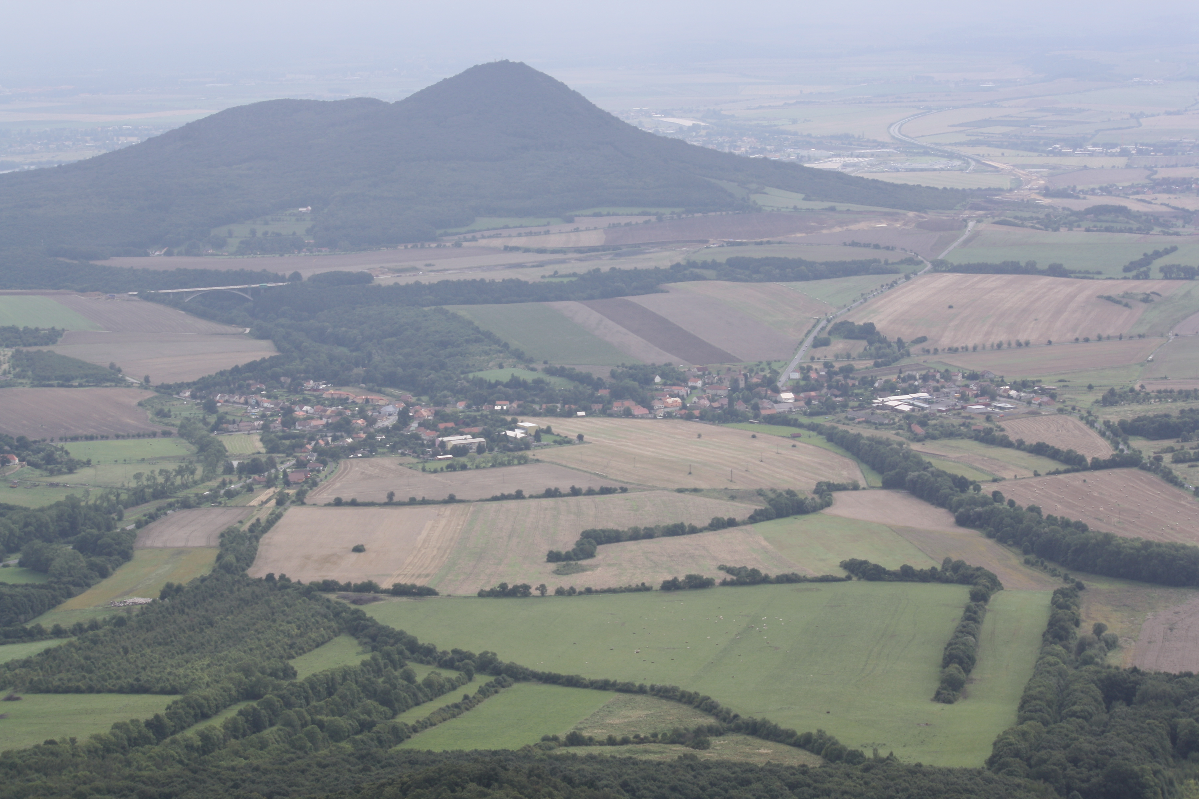 Lovoš hill (570 m) Velemín village and highway D8 within in the works as seen from Milešovka Hill, České středohoří, Czech Republic.